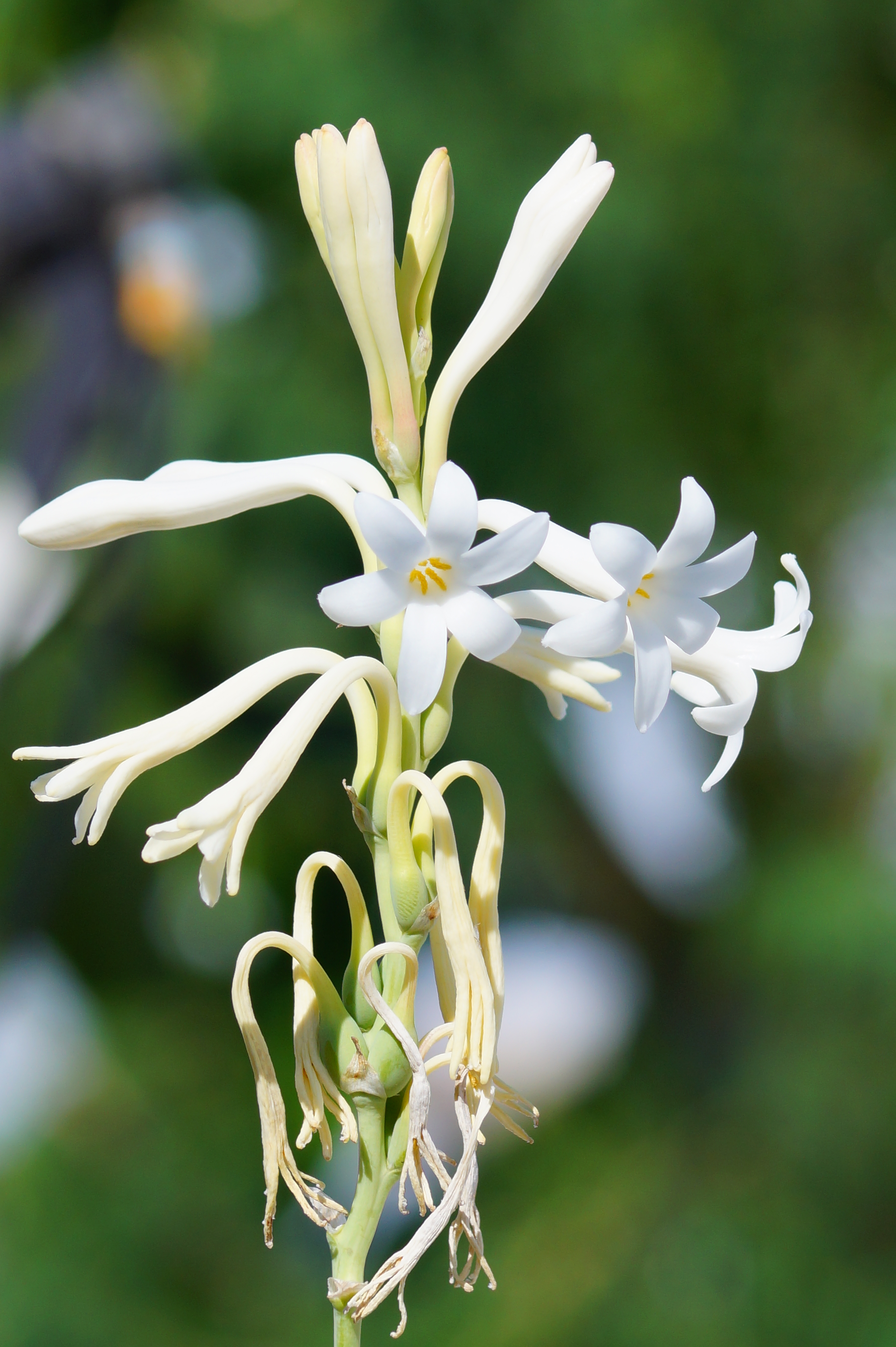 tuberose flowers at all stages